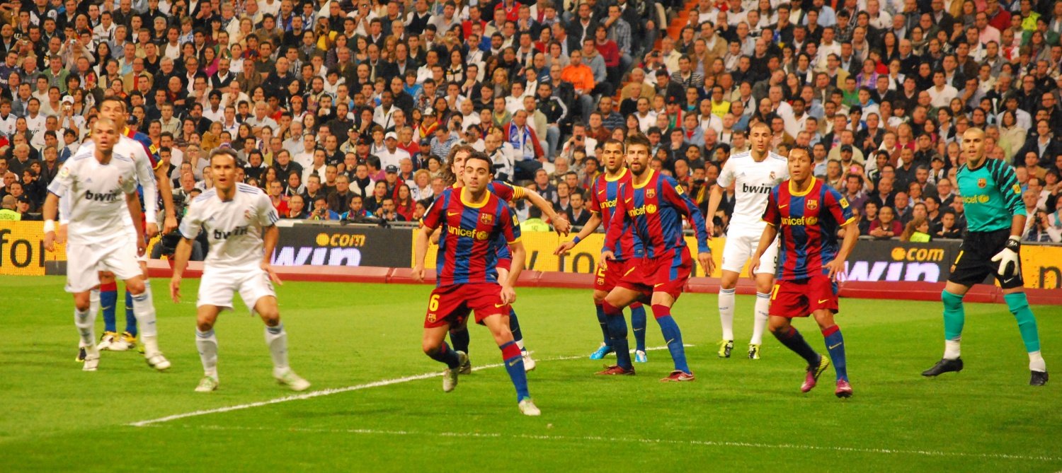 El Clásico